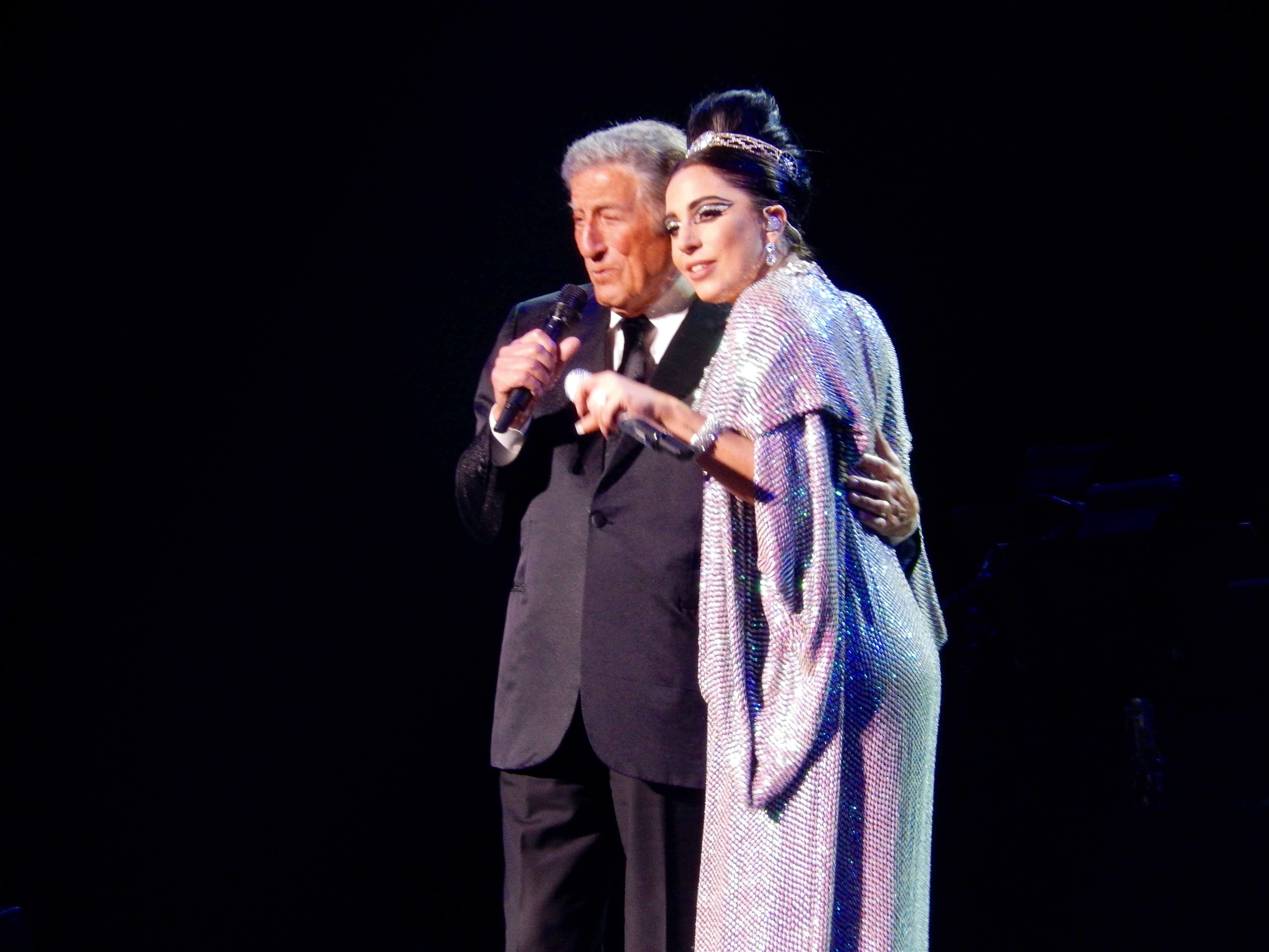 Cheek to Cheek Concert. The Axis. Planet Hollywood. Las Vegas. April 2015. Gaga and Bennett performing at Los Angeles for the Cheek to Cheek Tour